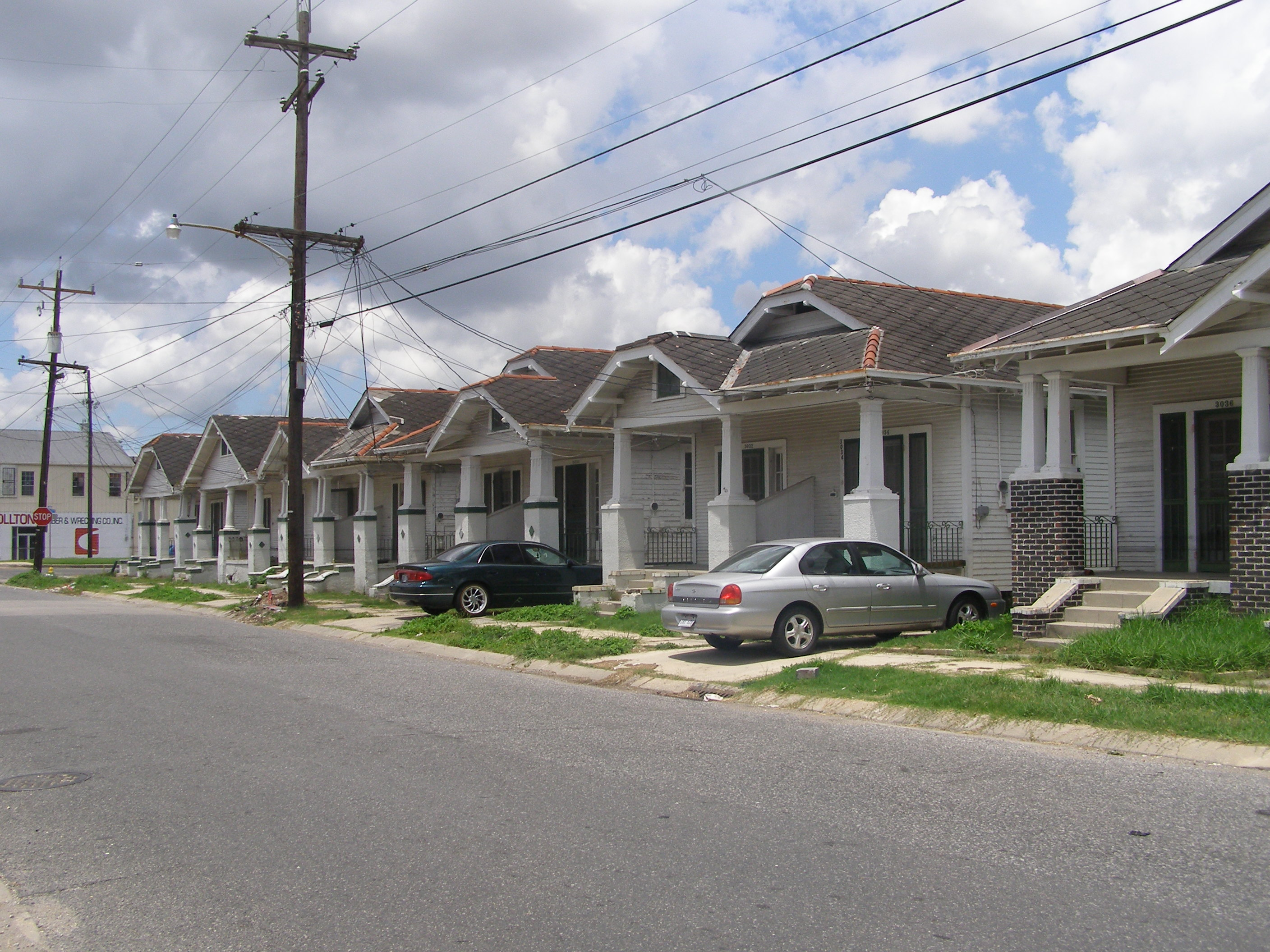 According to the latest FEMA list the following properties are going to be demolished. These houses are all cleaned out and very sturdy. This demolition would take out the entire block and leave a gaping hole in the Neighborhood.